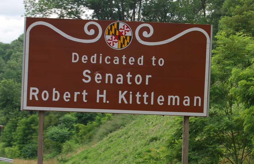 Route 32 Sign Dedication to Robert Kittleman